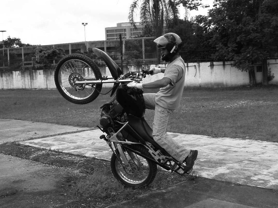 Wheelie, stunt, yamaha tdm225